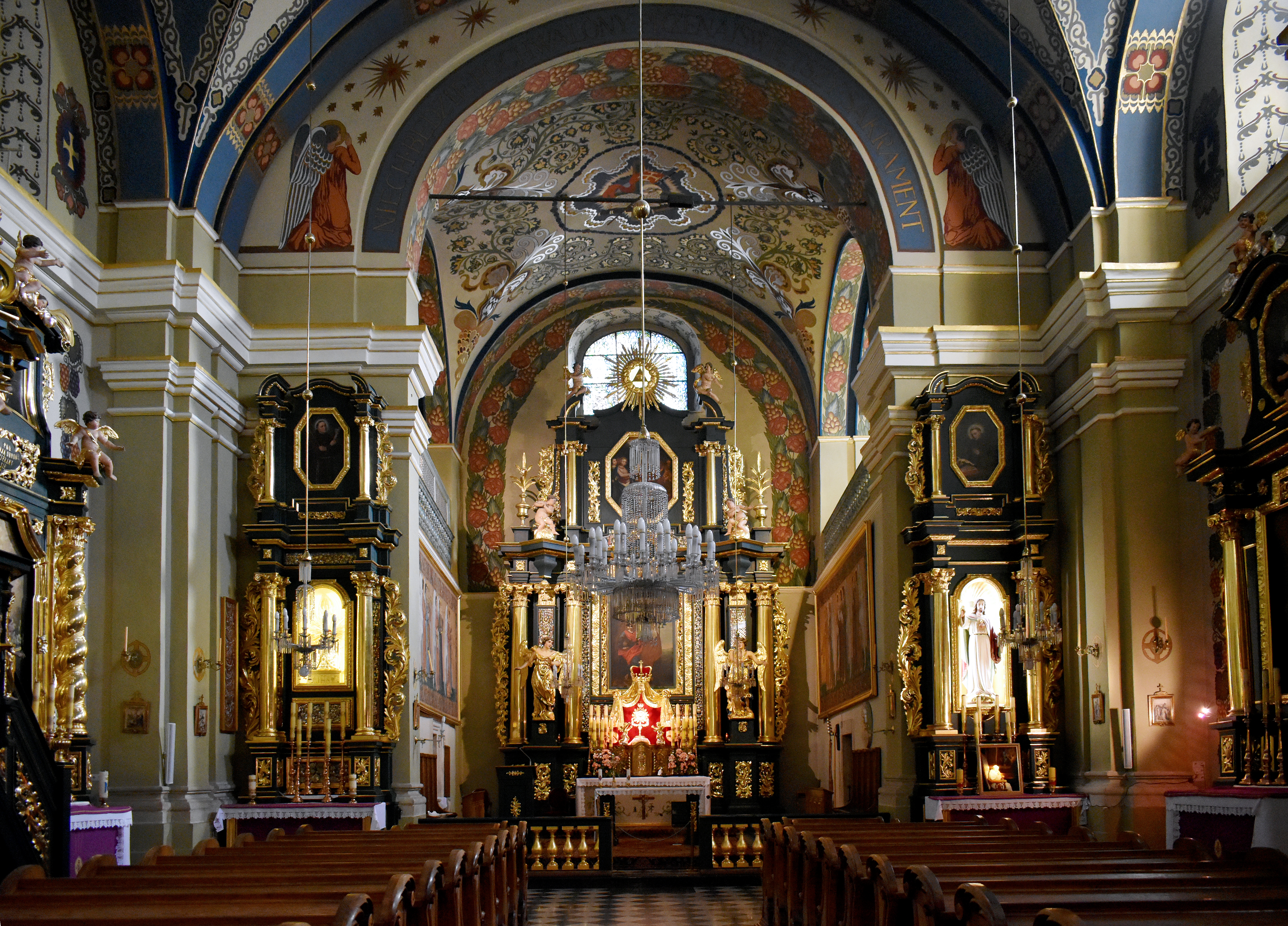 St Joseph Church (interior), 21 Poselska street, Old Town, Krakow, Poland